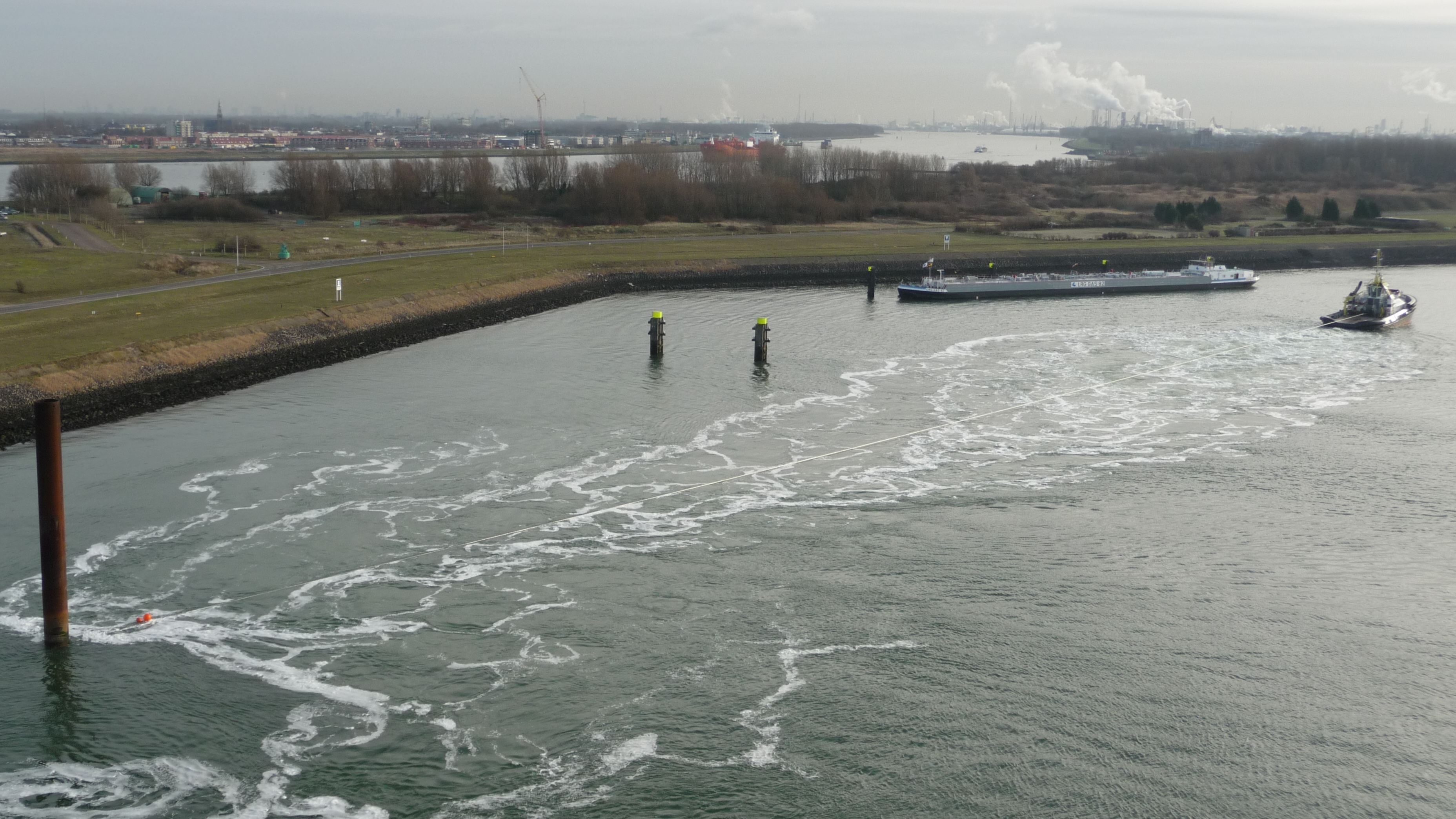 The Multratug 3 during bollard pull trials in the Caland Canal